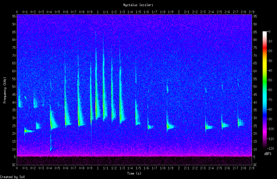 Bat calls of Leisler's Noctule (Nyctalus leisleri) / real time